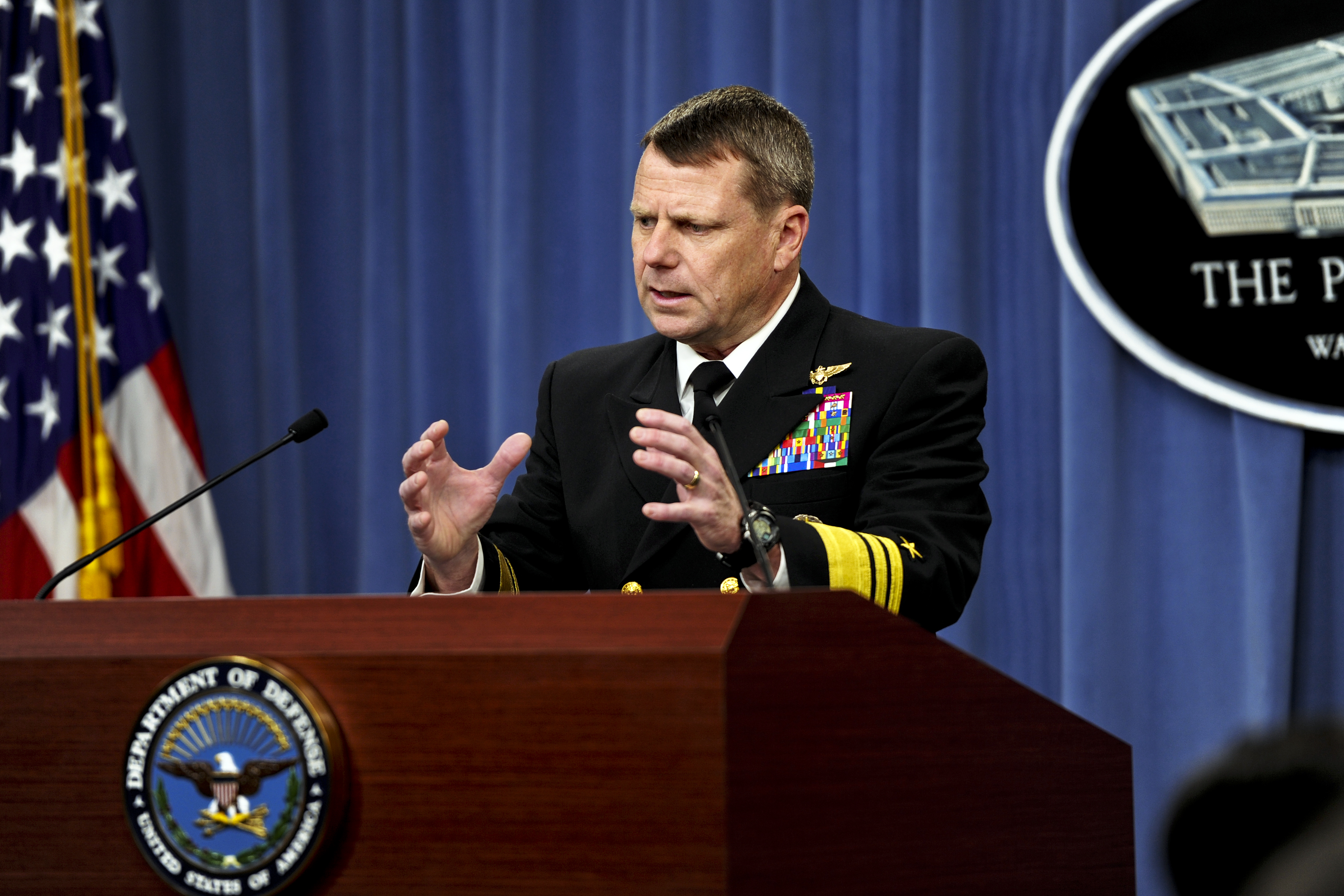 Navy Vice Adm. William E. Gortney, director of the Joint Staff, briefs the press on "Operation Odyssey Dawn" at the Pentagon, March 19, 2011. Admiral Gortney announced that coalition forces have launched the operation to enforce U.N. Security Council Resolution 1973, which protects the Libyan people from their ruler.